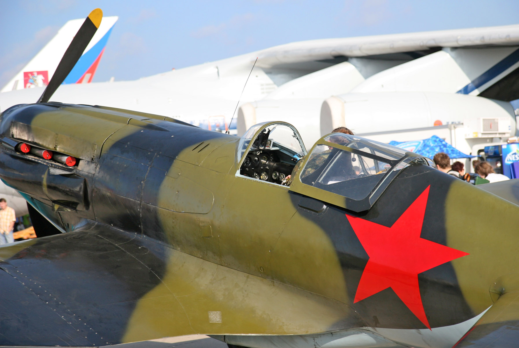 МиГ-3Р it is transported in a flight zone (the international aerospace salon MAKS-2007)